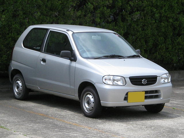 Suzuki "Alto" van (5th generation)